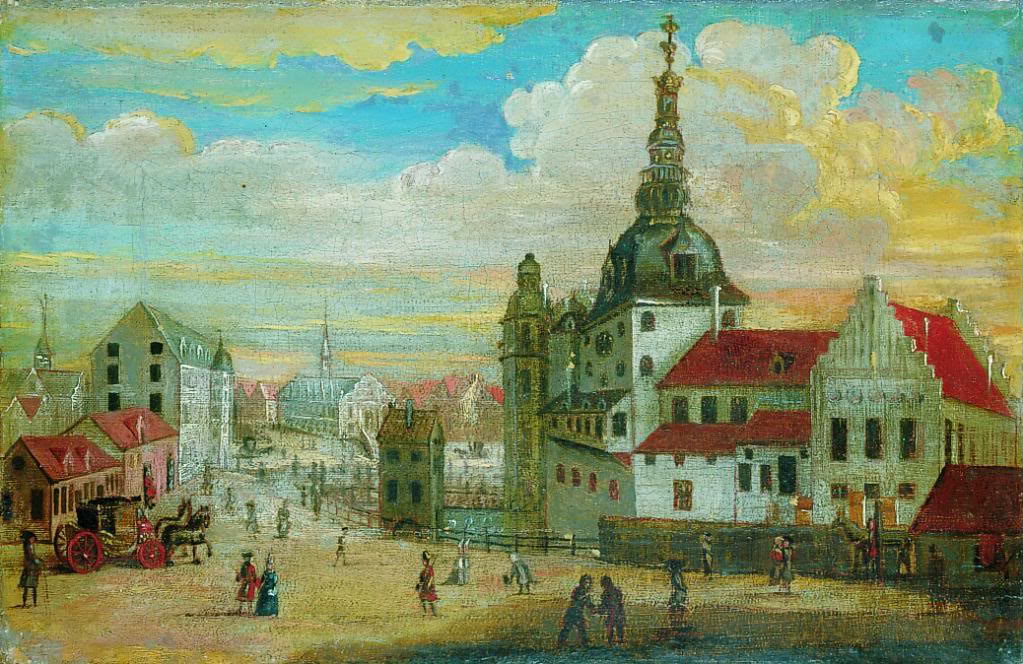 Painting of Copenhagen Castle on Slotsholmen in Copenhagen, Denmark, a precussor of pressent-day Christiansborg Palace on the same site. The square Blue Tower which achieved an infamous reputation as a prison for Leonora Christina is seen in the picture. Also seen in the picture is the Assembly Building with government offices and a meeting hall for the Privy Council (Rigsrådet)